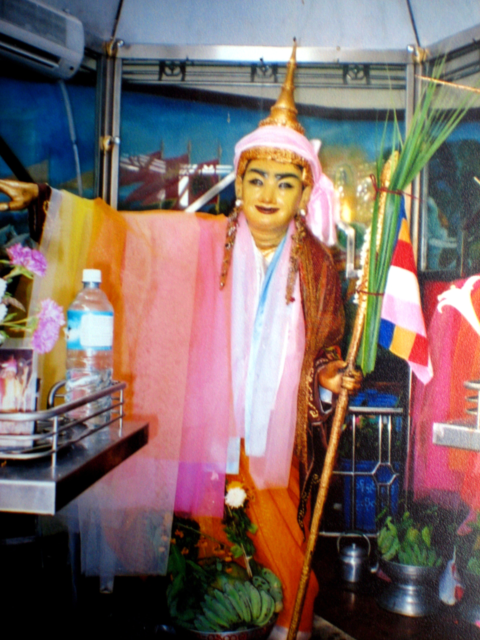 Bo Bo Gyi (guardian nat/spirit) of Sule Pagoda in Yangon မြန်မာဘာသာ: ဆူးလေဘိုးဘိုးကြီး